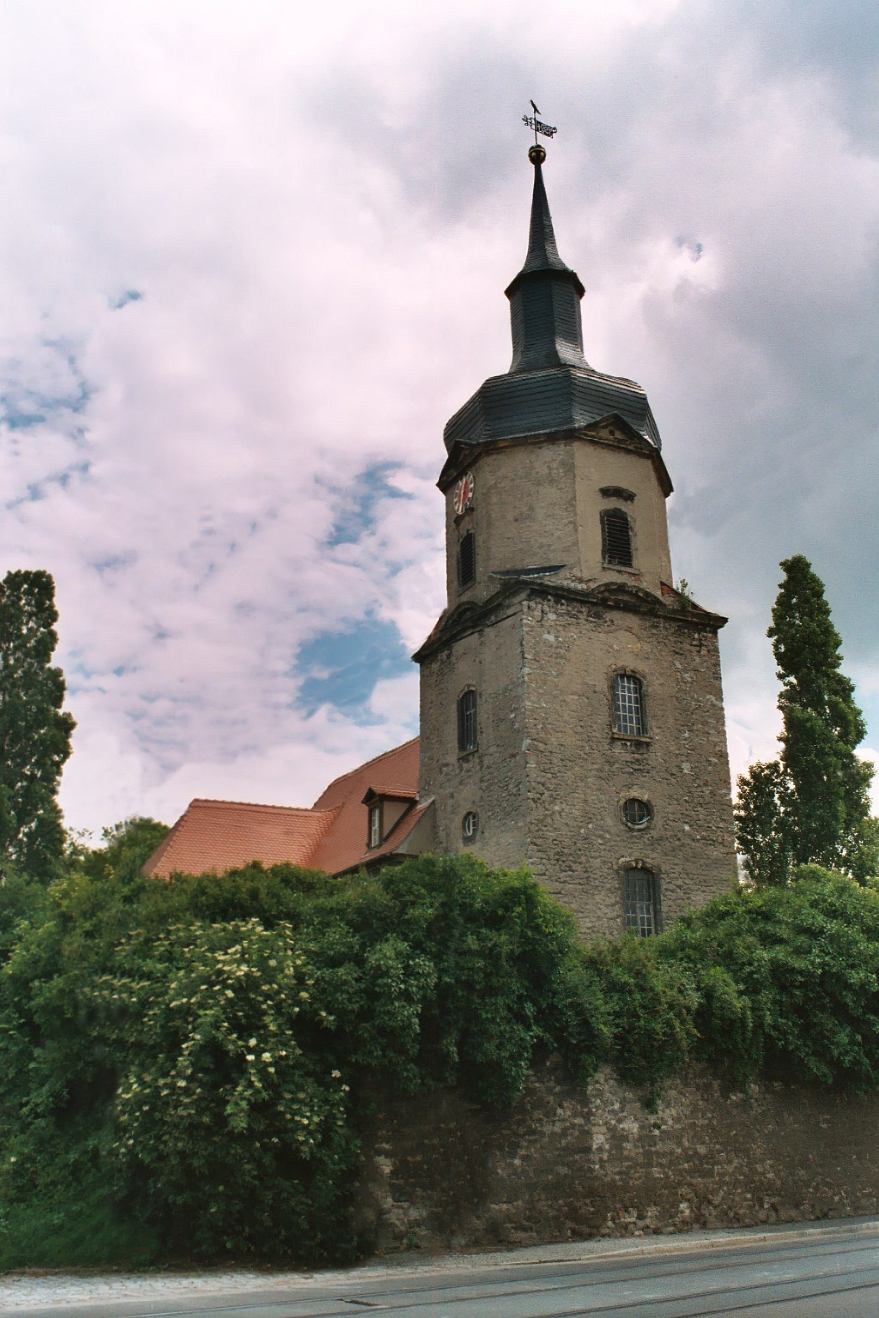 Schkopau, the Lutheran church